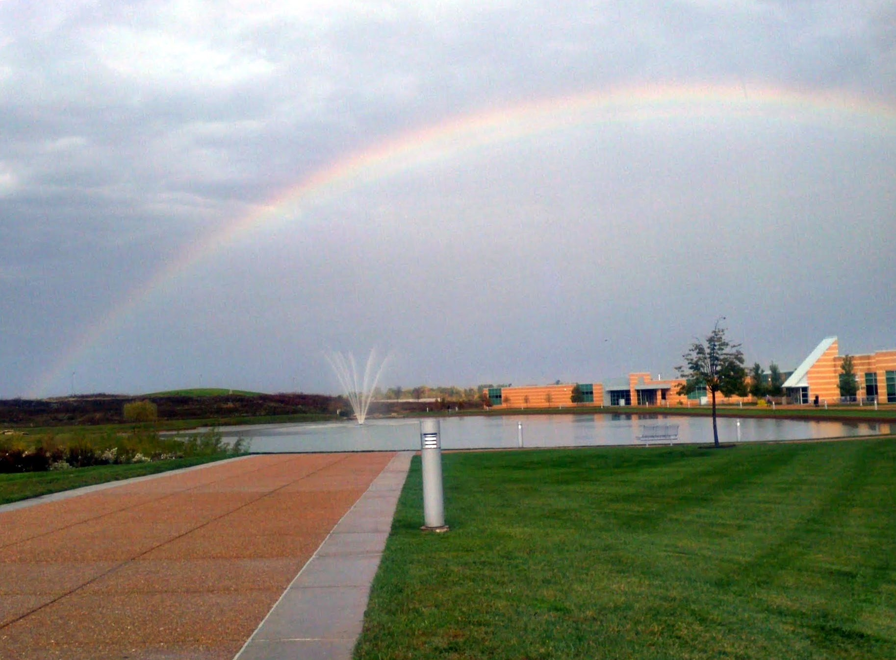 An impressive rainbow of St. Charles Community College (SCC) in Cottleville, MO. This photo was cleaned up some in GiMP.